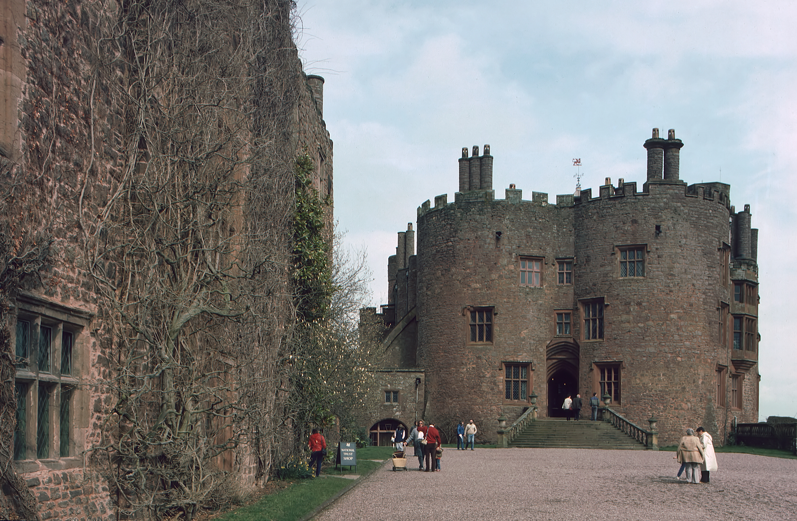 Powys Castle, located in the county of Powys in Wales/UK, courtyard and entrance.